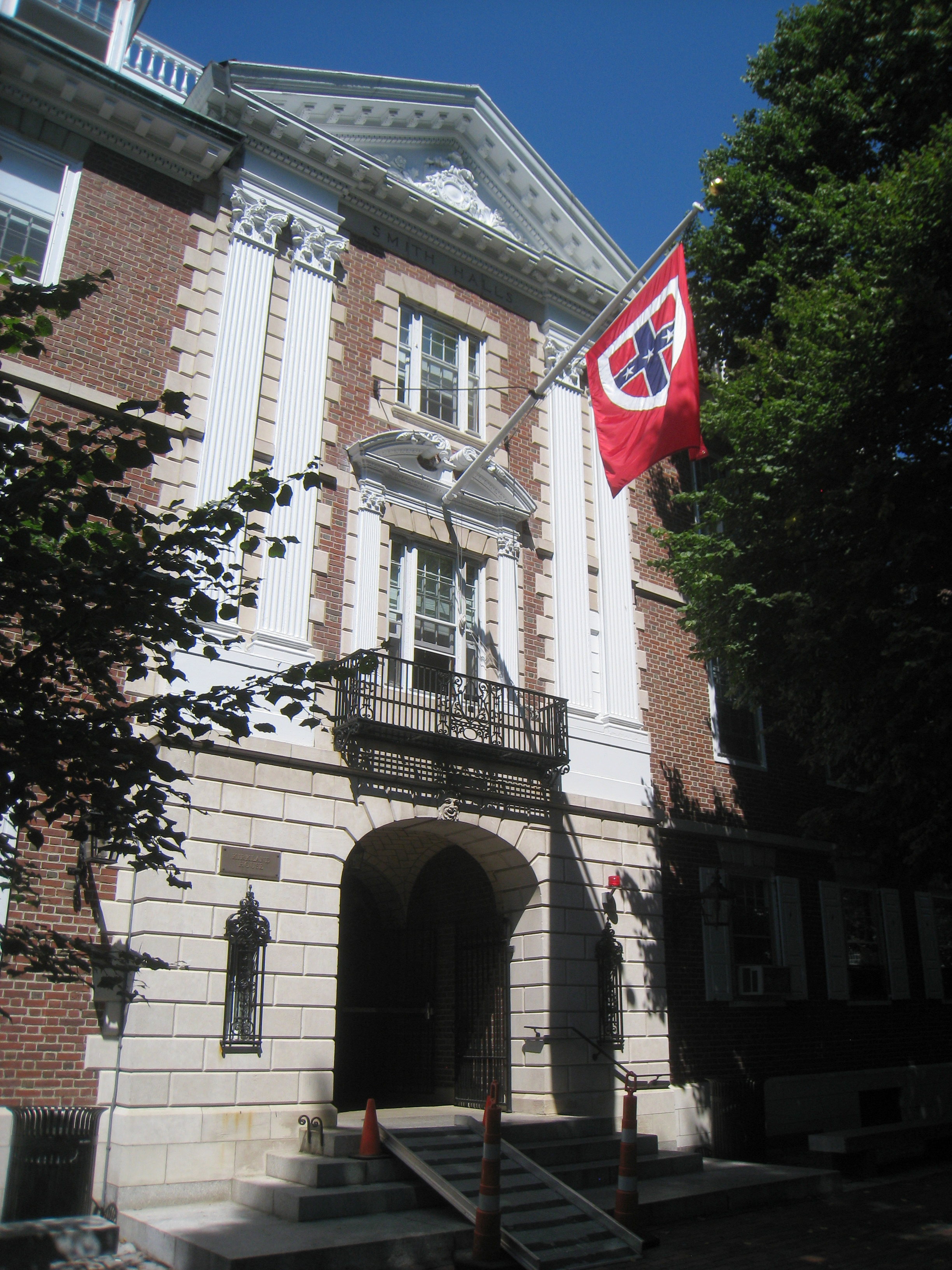 Kirkland House, Harvard University, Cambridge, Massachusetts, USA.